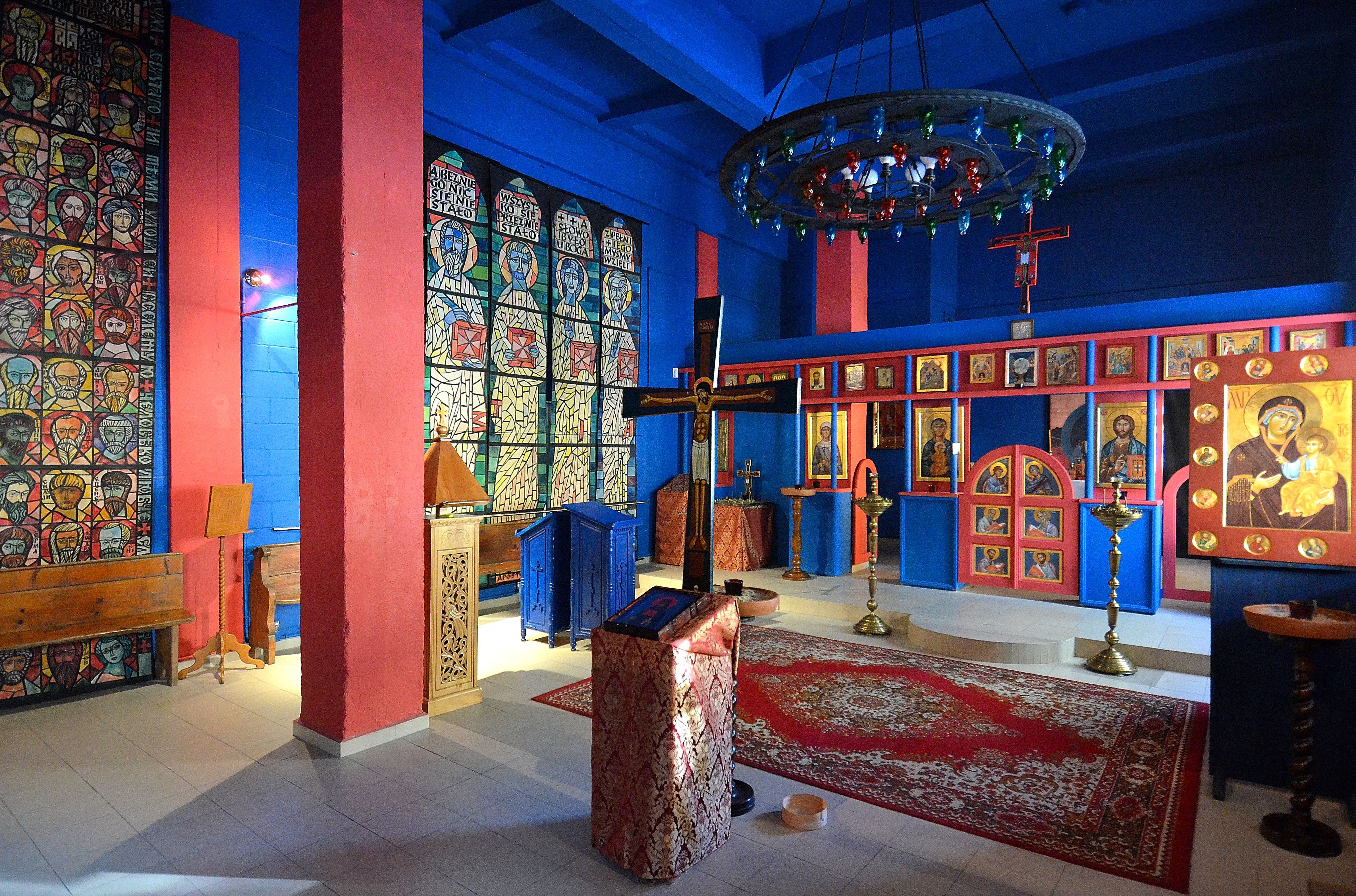 The interior of the Orthodox chapel of St. Grigol Peradze at 5 Lelechowska Street in Warsaw